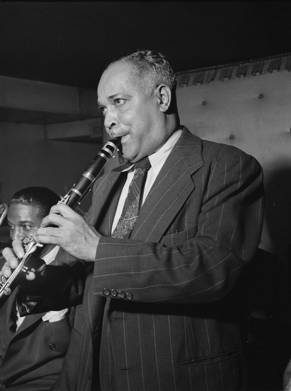 Portrait of Albert Nicholas, Jimmy Ryan's (Club), New York, N.Y.